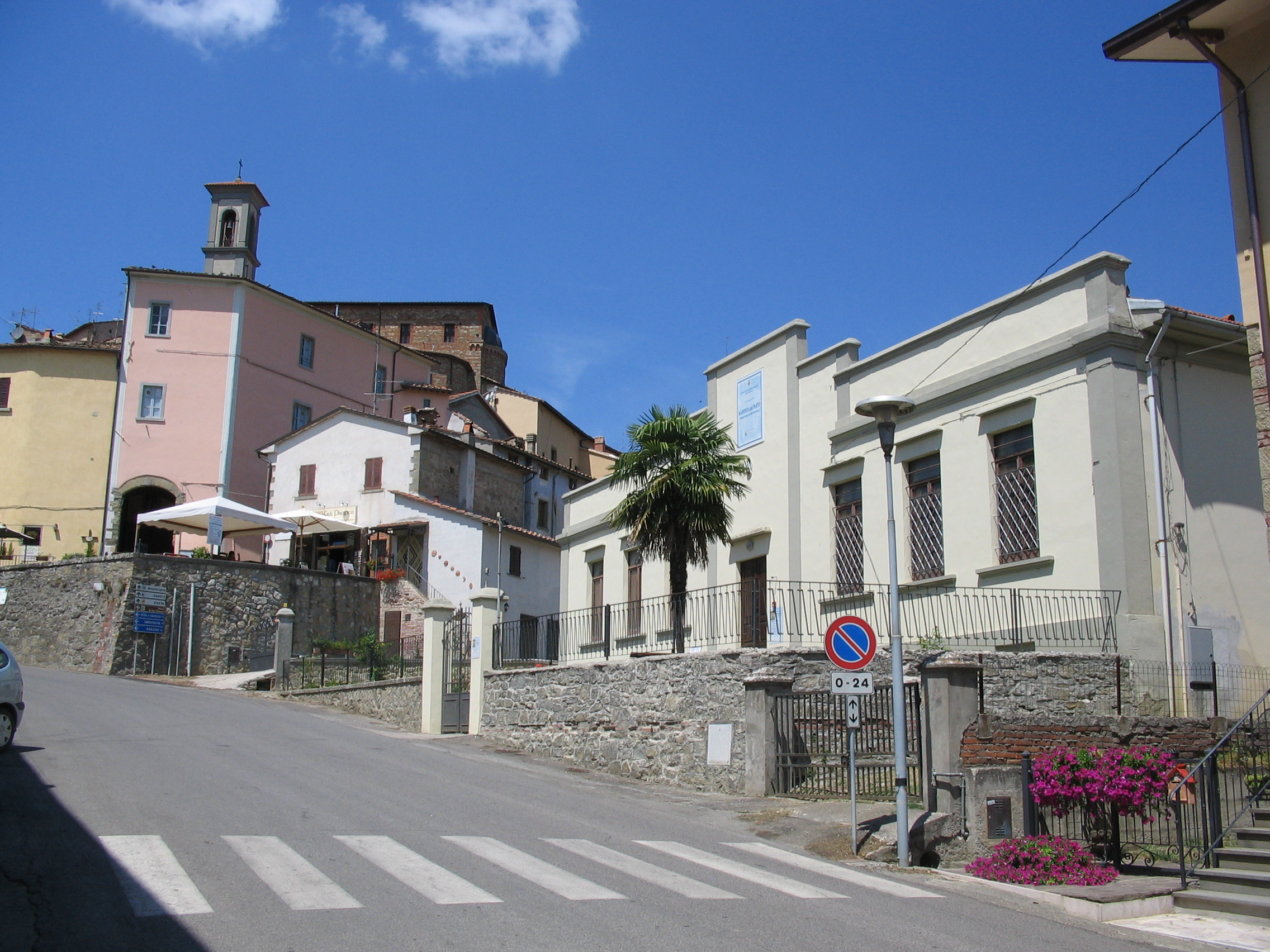 Museum of the Madonna del parto in Monterchi, Italy